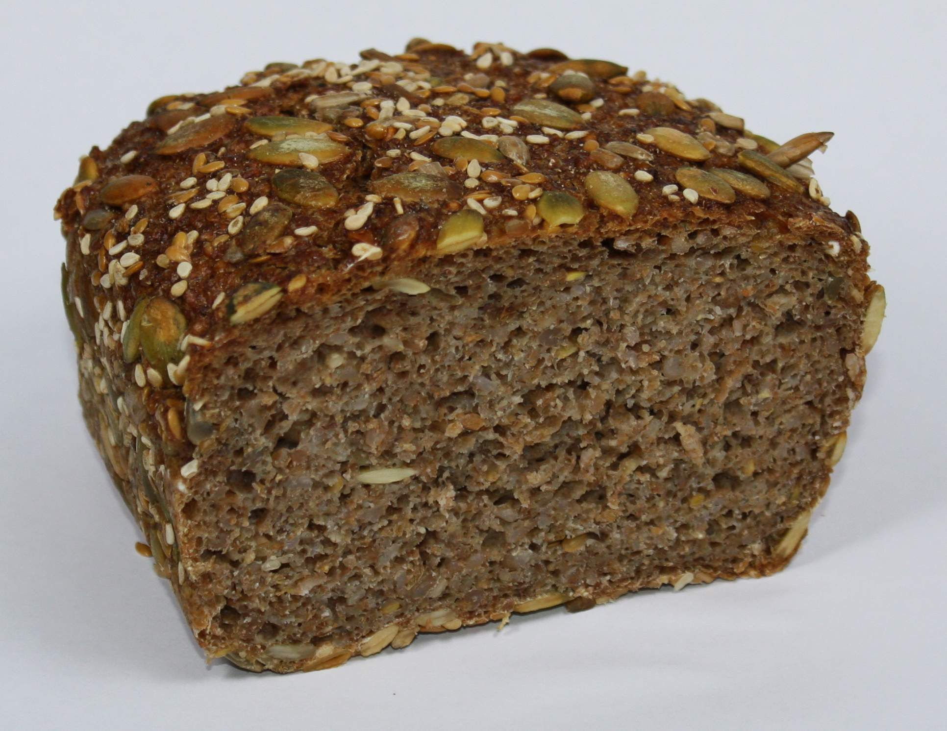 Essene Bread, 70% sproud Rye, 30% Spelt, Temperature 200-270°C, cutted